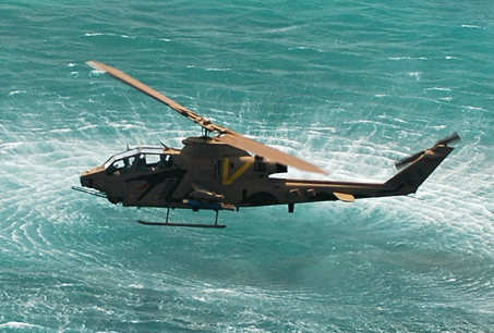 April 6, 2005 Its unique abilities and precision weapons have led the Israel Air Force to use the Cobra helicopter to fight wars and hit targets during military operations. A difficult target for enemy fire, the Cobra is primarily used as an attack helicopter. Manufactured in the US, Israel has used the Cobra since the 1970's. Photo by the Israel Air Force.